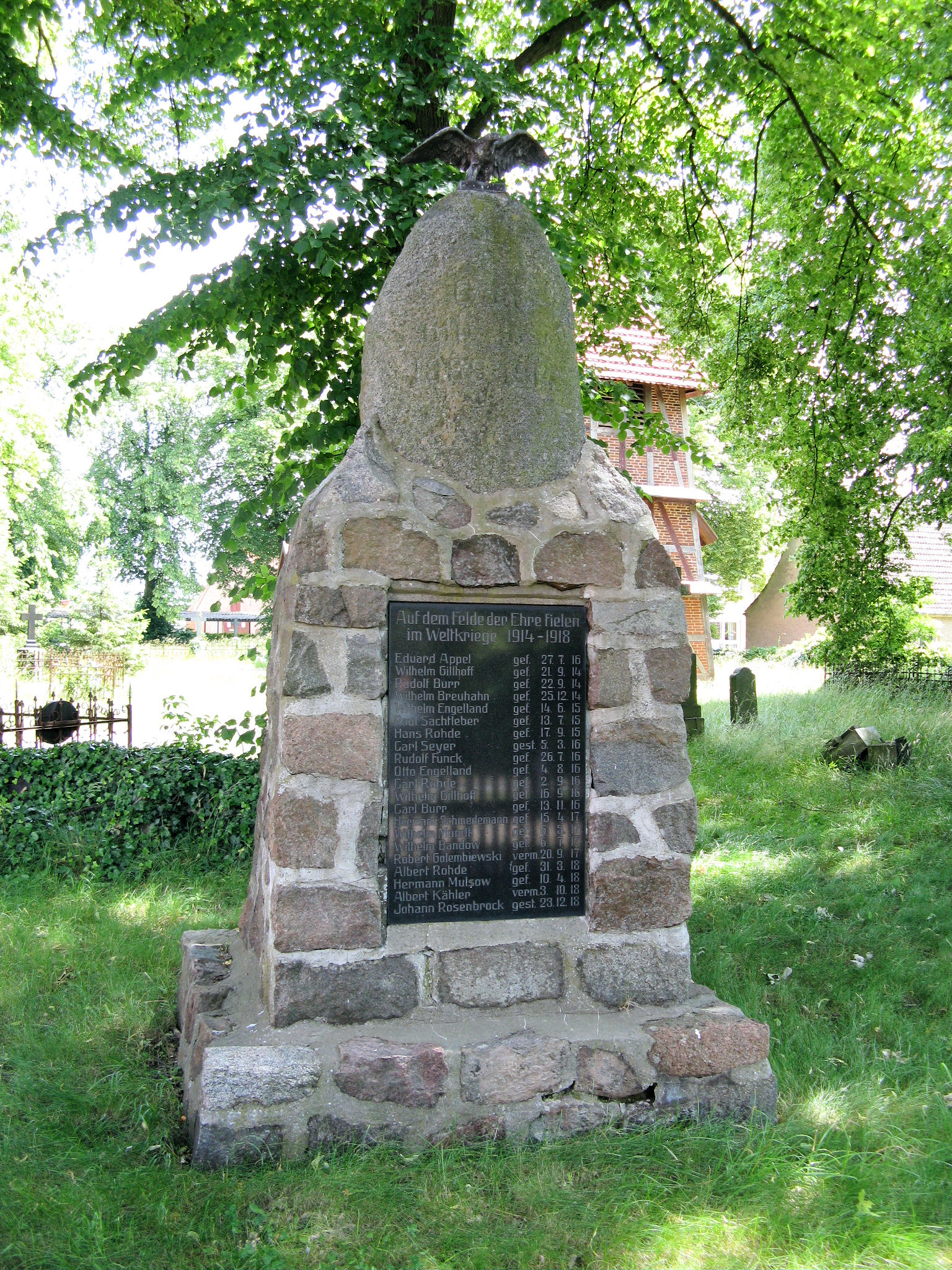 War memorial 1914/18 in Matzlow, disctrict Ludwigslust-Parchim, Mecklenburg-Vorpommern, Germany